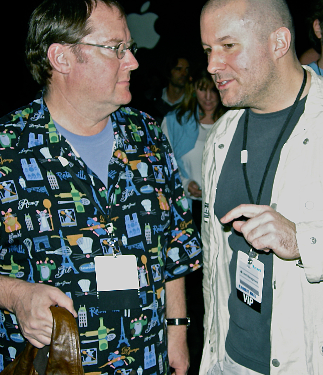 Jonathan Ive with John Lasseter at the opening of Macworld Expo 2008